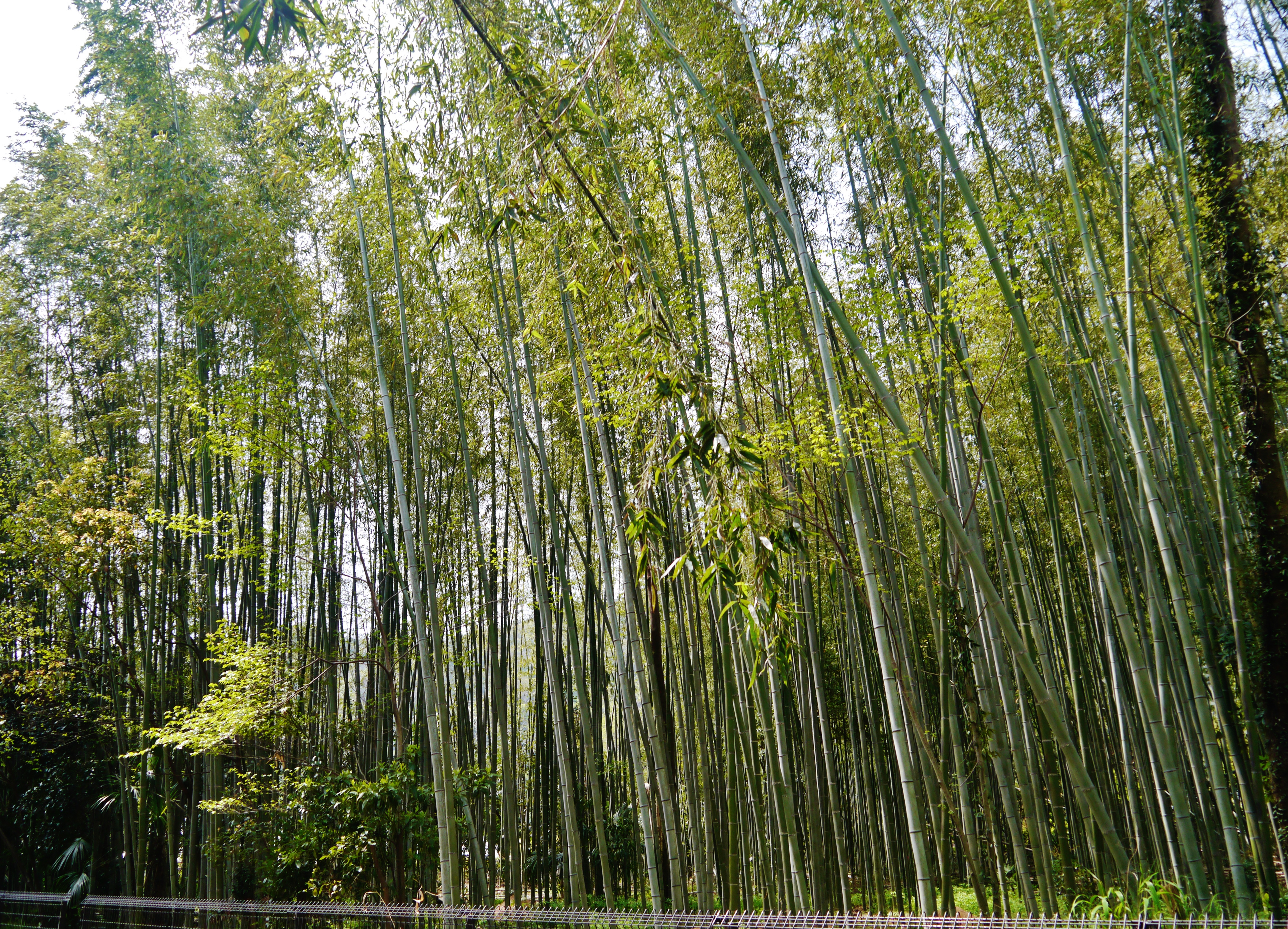 Sagano Bamboo Forest, Kyoto, Kyoto Prefecture, Kinki Region, Japan